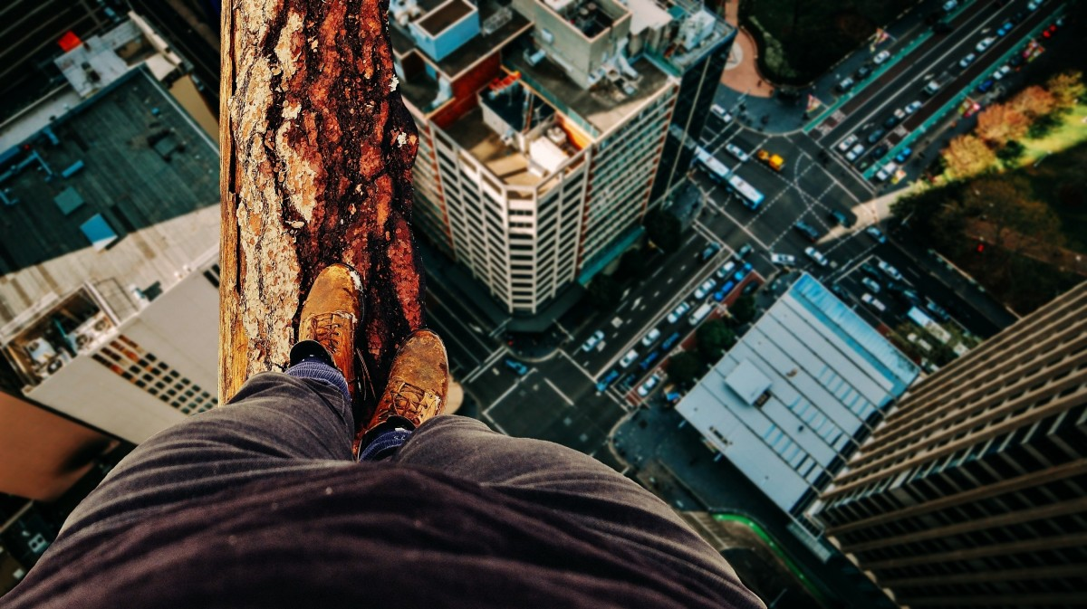 collage on acrophobia